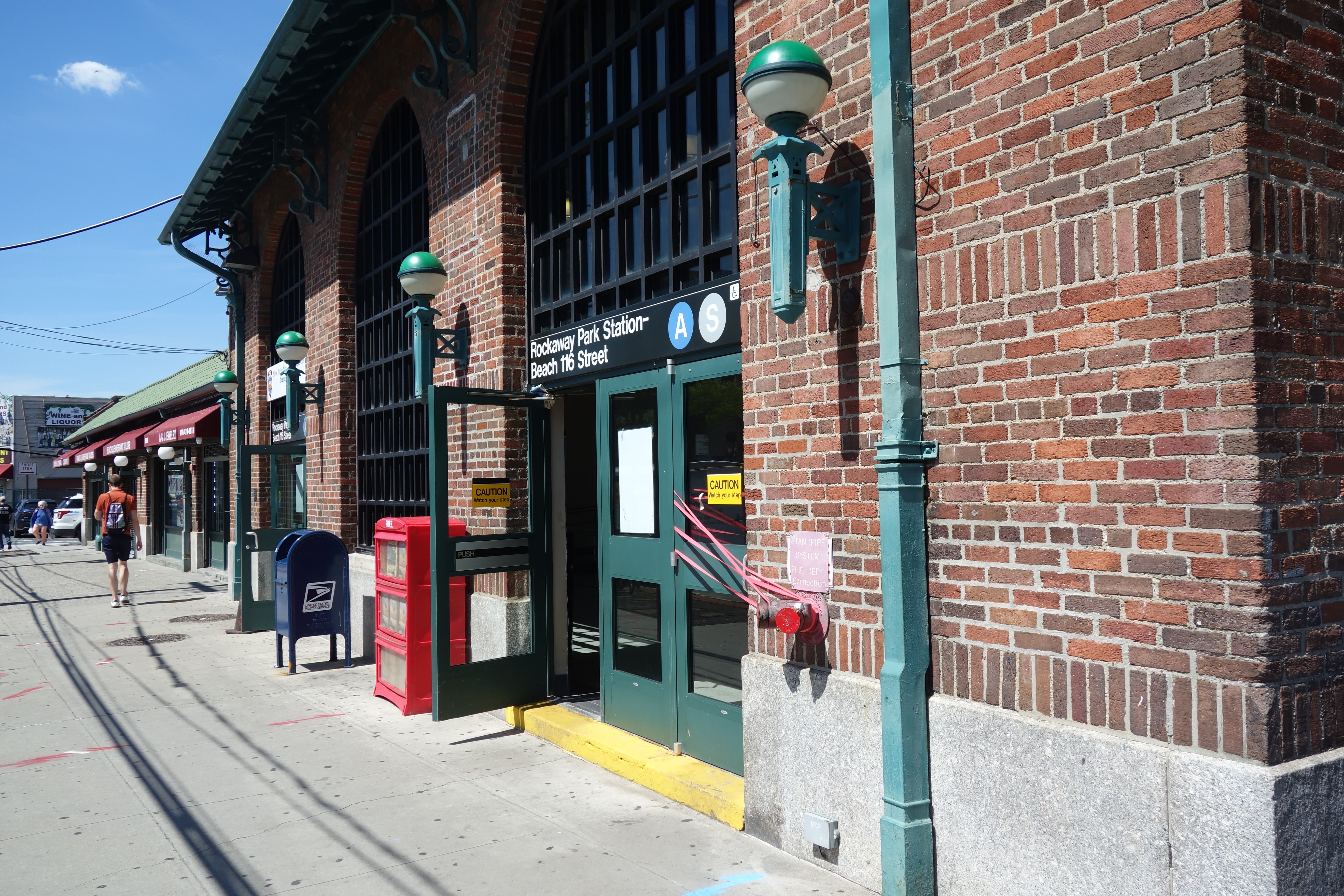 Outside the station house of the Rockaway Park–Beach 116th Street station house, on the east side of Beach 116th Street north of Rockaway Beach Boulevard in Rockaway Park, Queens.